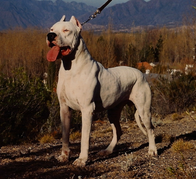 Dogo